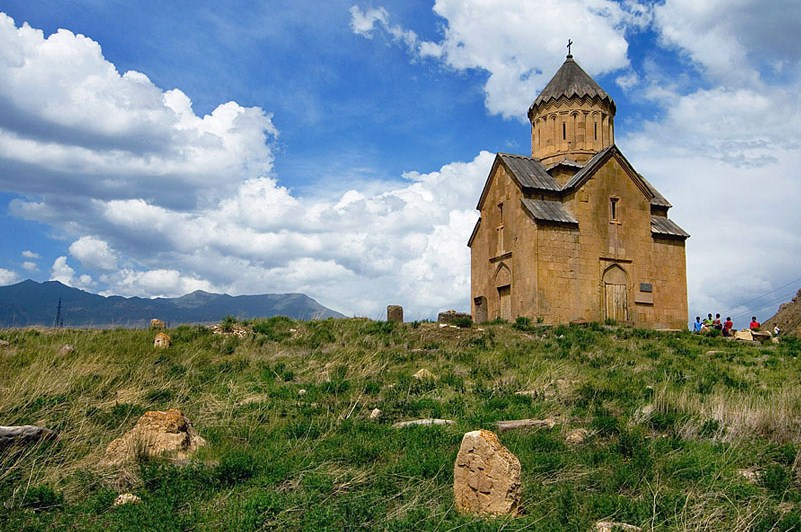 Areni Ch., Armenia